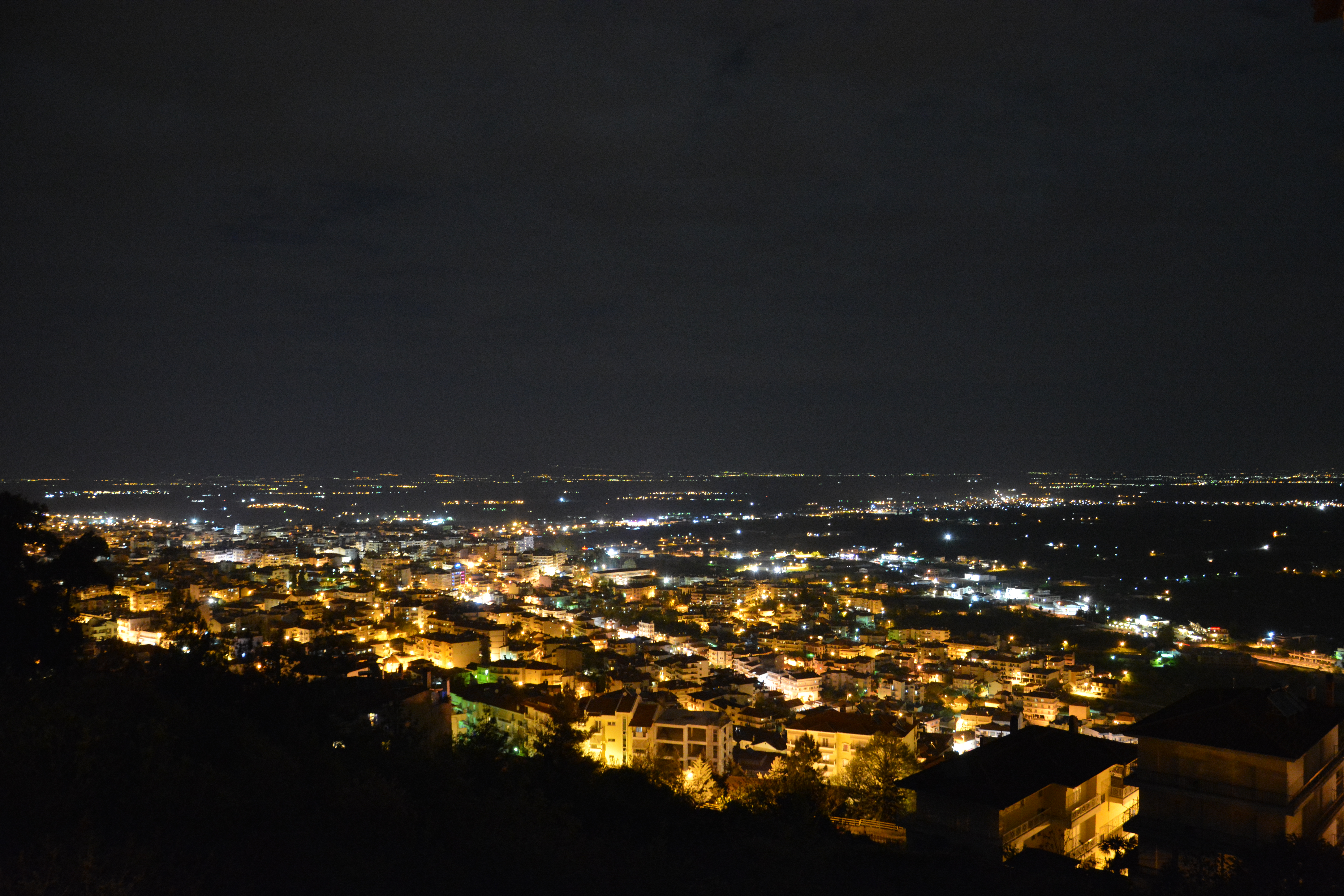 Nightview of Veria, Greece from the Vikela Hill.